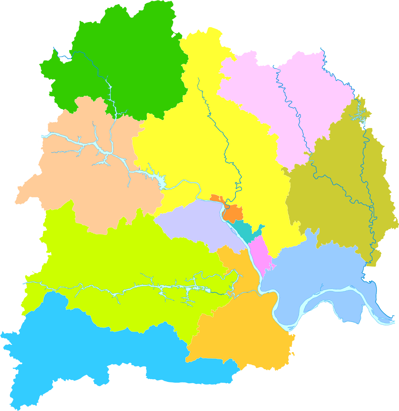 administrative division of Yichang City, Hubei, China